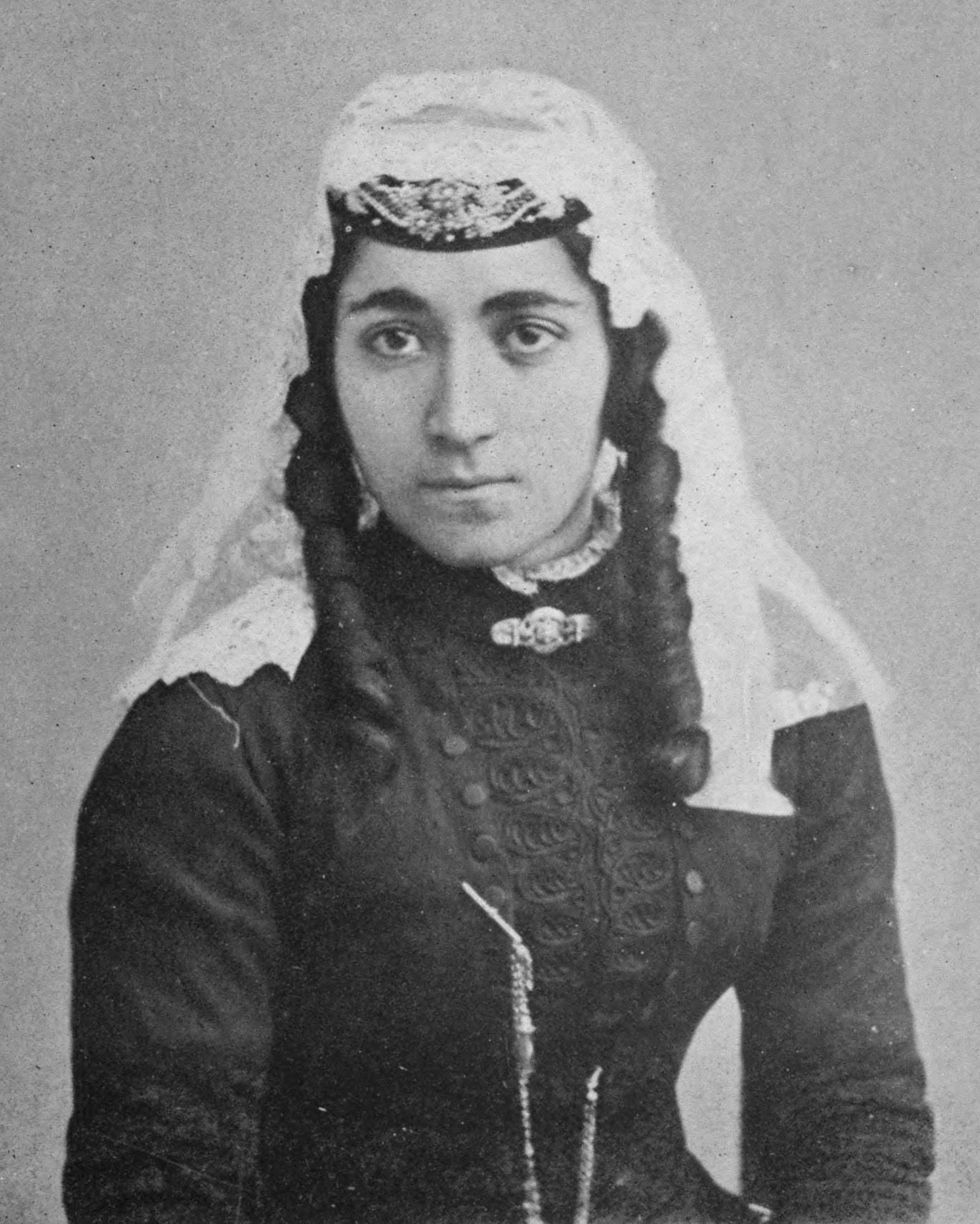 A image of an Armenian women in a traditional dress. The head-dress is usually found in the Caucasus.